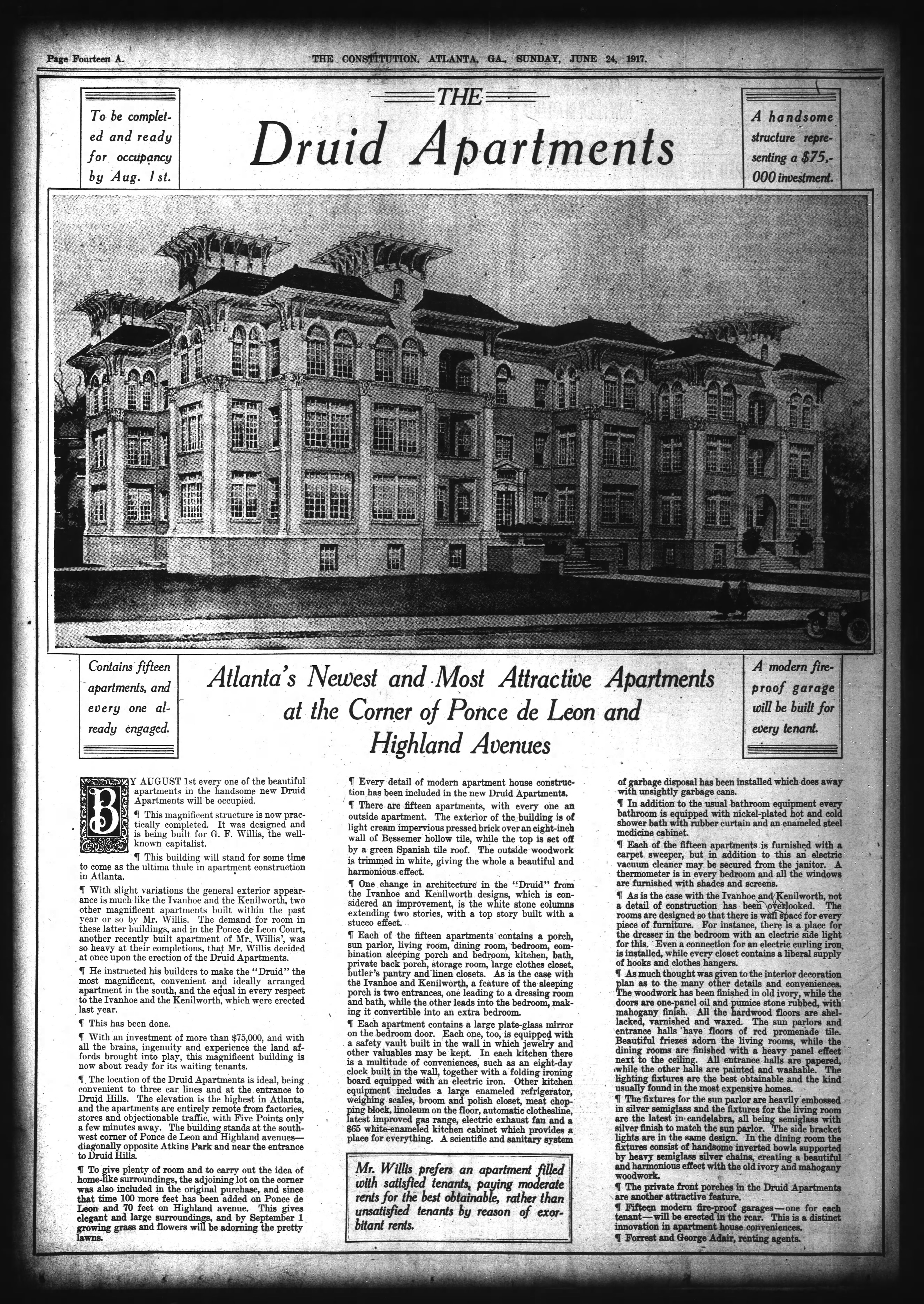 Druid Apartments ad in Atlanta Constitution June 24, 1917